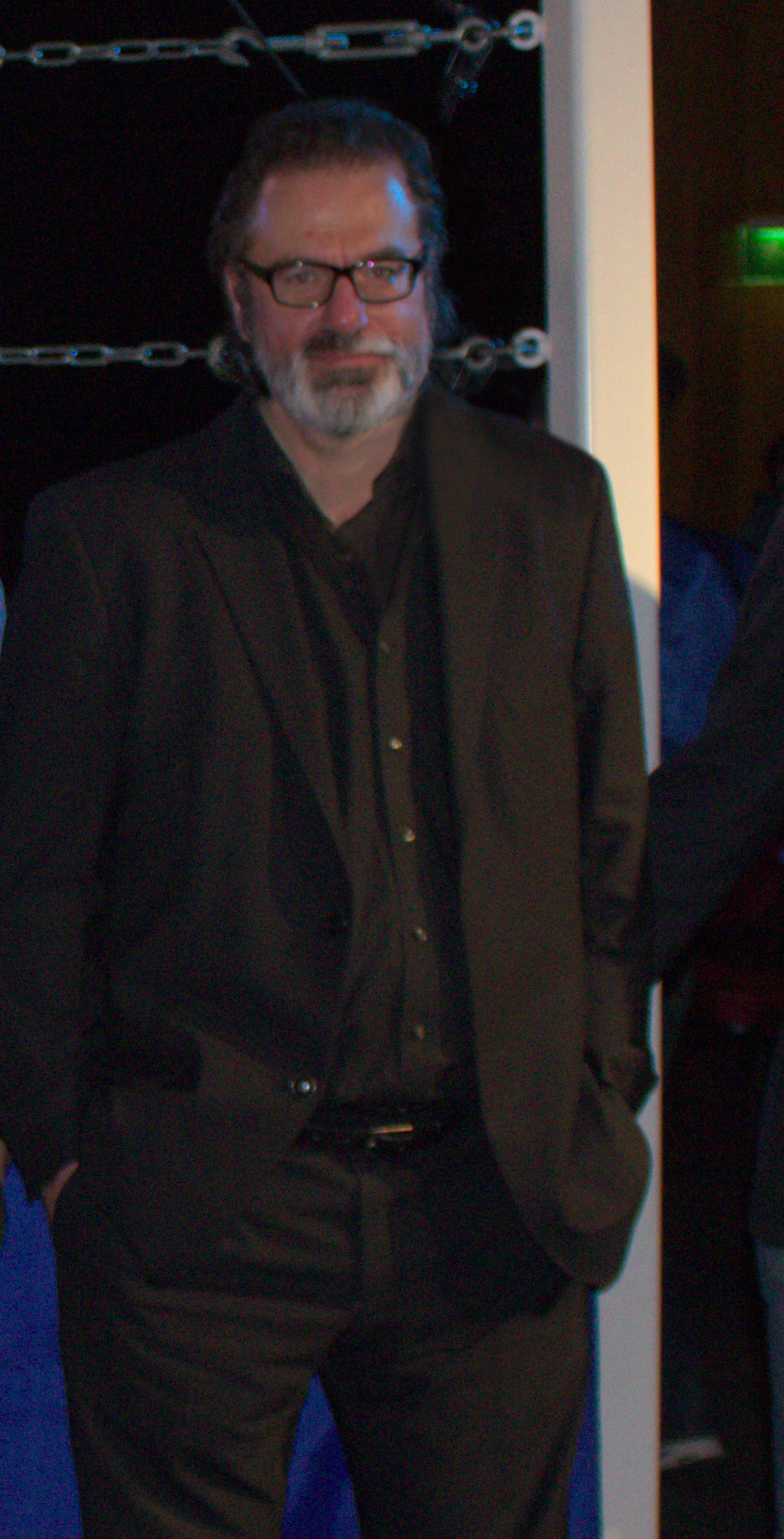 Anatol Nitschke on the set of the feature film Herbert in 2014.